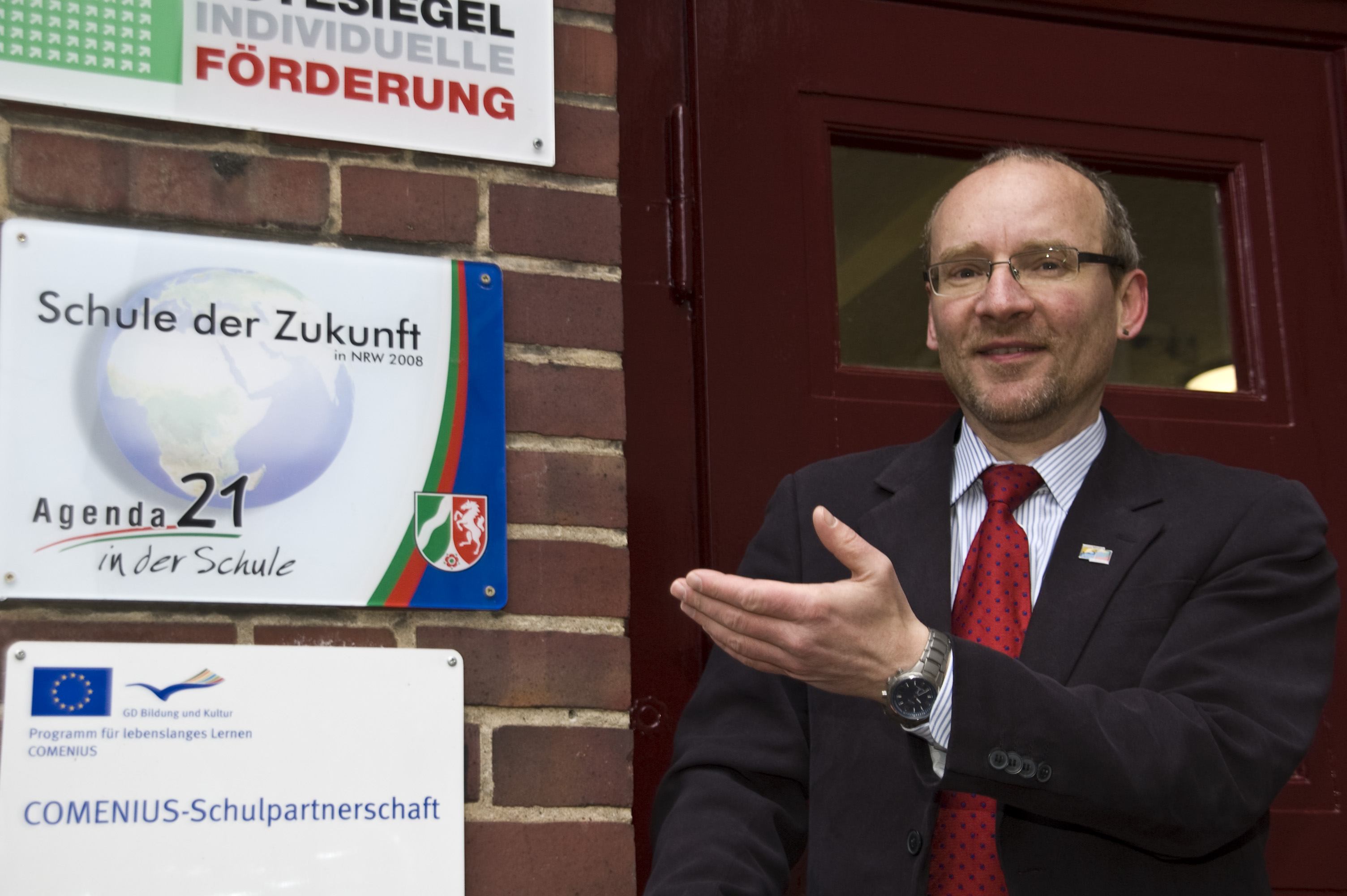 Michael Burhe, mayor of Minden, District of Minden-Lübbecke, North Rhine-Westphalia, Germany.